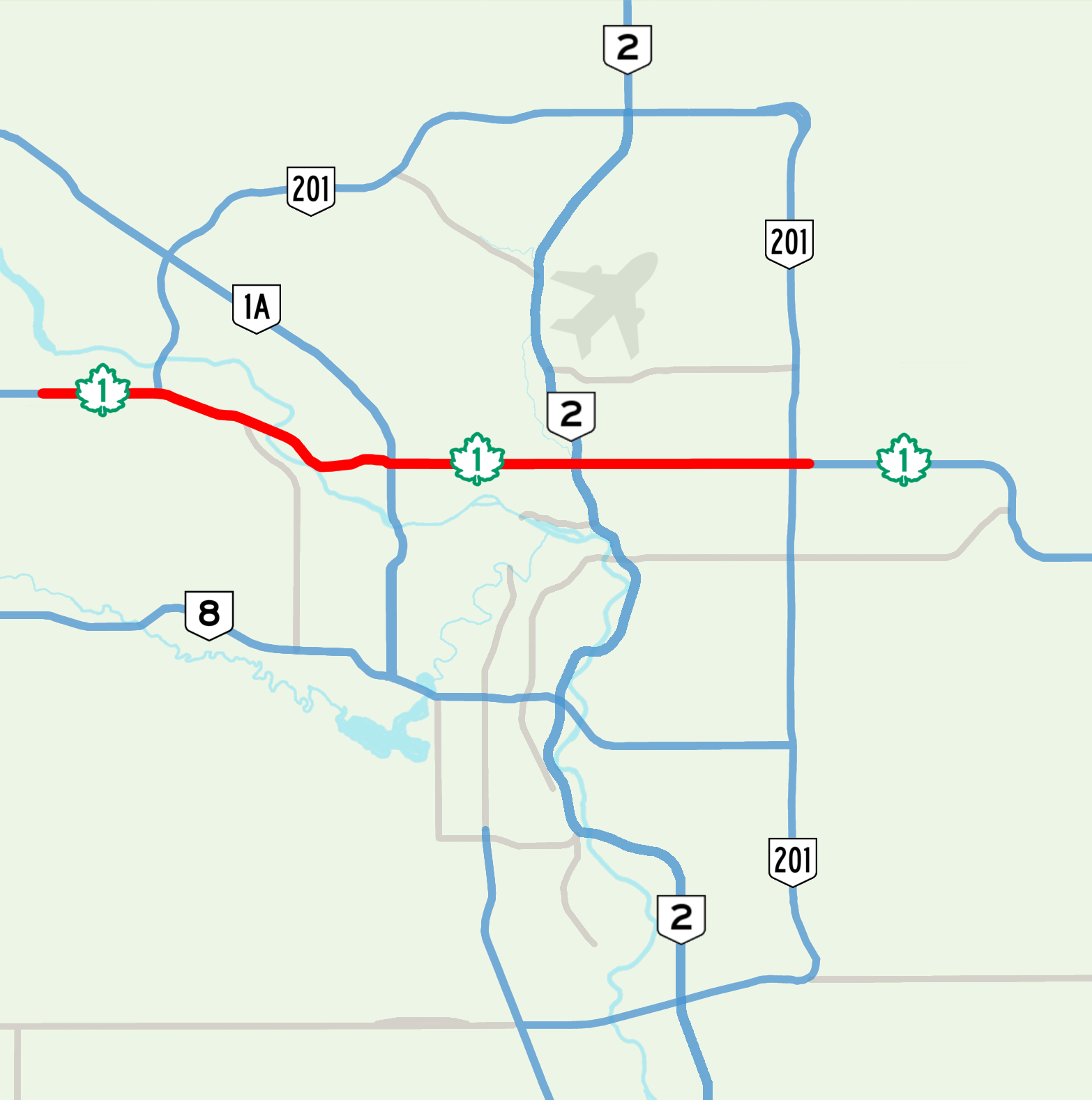 16 Avenue North, Calgary, Alberta - created with OpenStreetMap